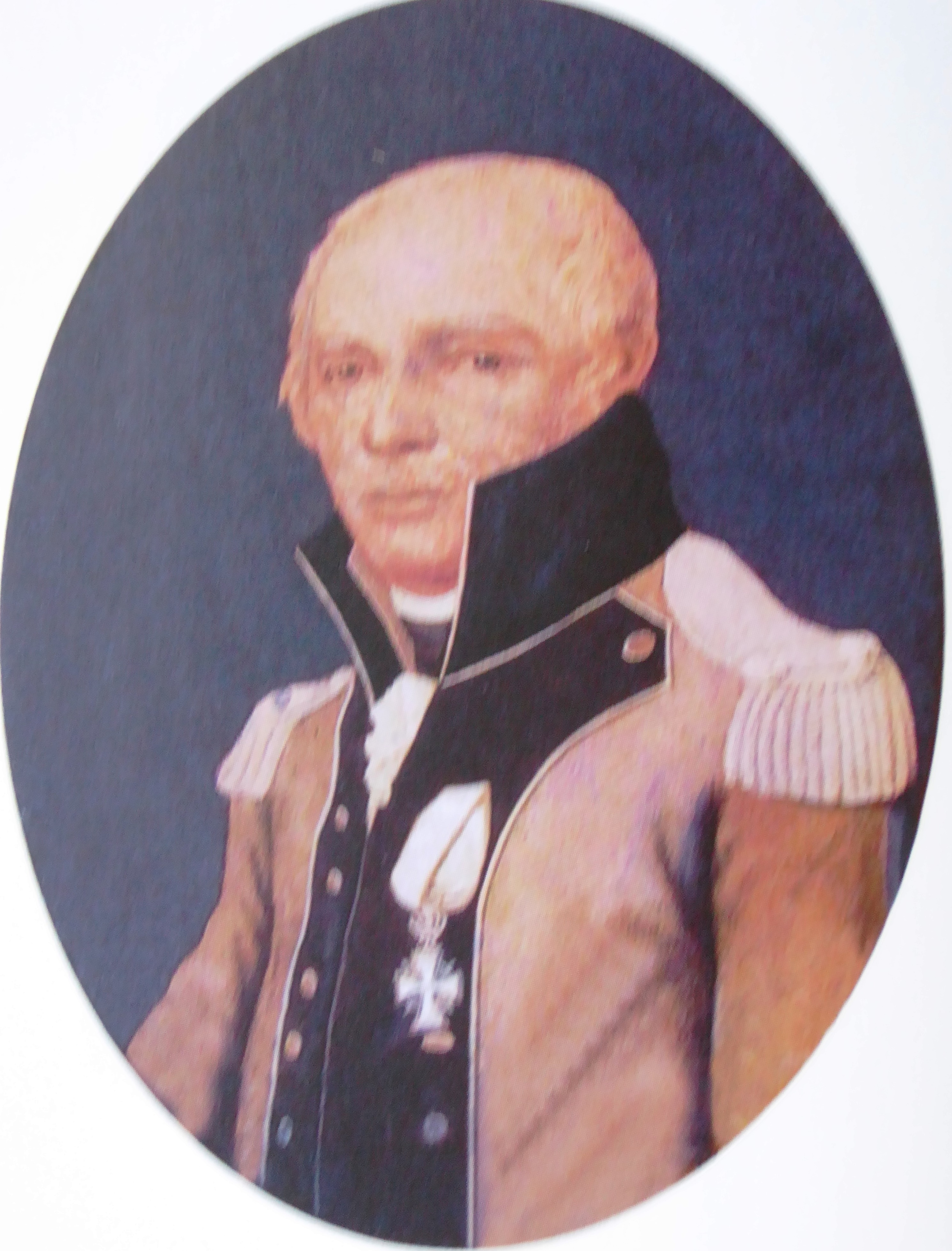 Diderich Adolph von der Recke (1755-1816). Painting by unknown artist.